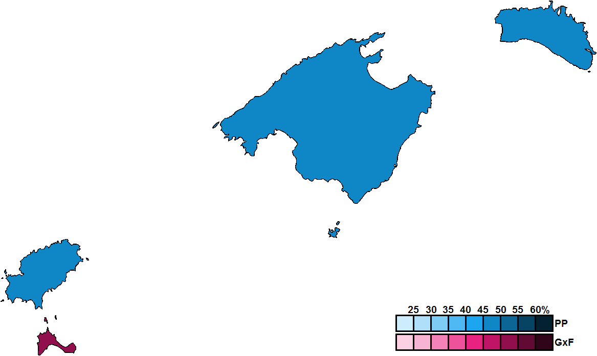 District results for the 2011 Balearic regional election.